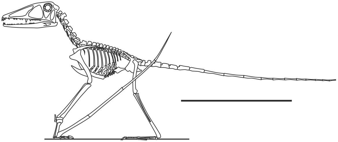 Skeletal restoration of Preondactylus bufarini.